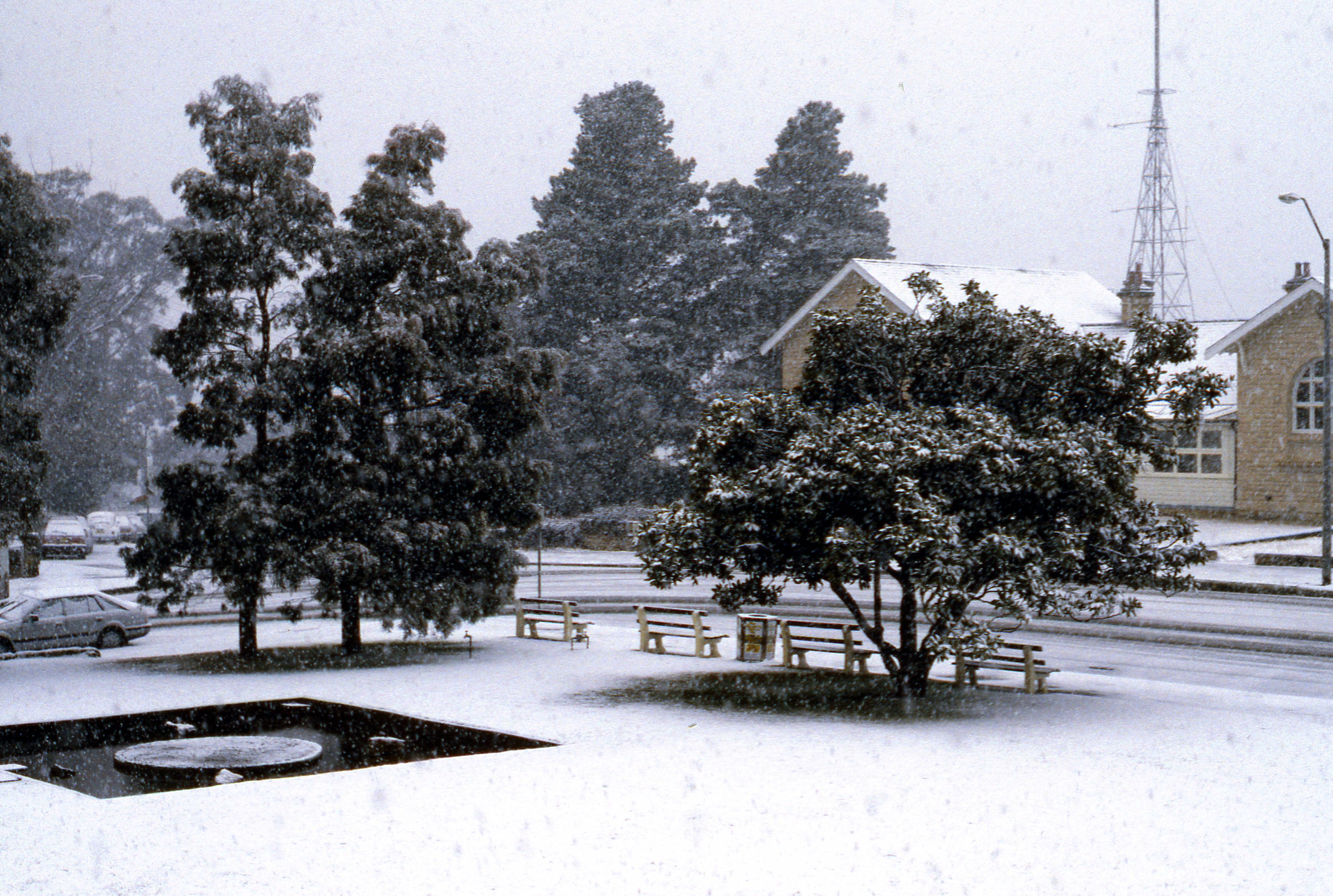 Notes: Katoomba Court House opposite the Council HQ. Format: colour transparency - Kodak Ektachrome Date Range: July 1987 Location: Katoomba. Map locations are not displaying in images uploaded since the flickr server change-over on 19 May 2019. Licensing: Attribution, creative commons Repository: Blue Mountains City Library .au/client/en_AU/default/ Part of Local Studies Collection: ME 10427 Provenance: Michael Eades (1954-2002) Links